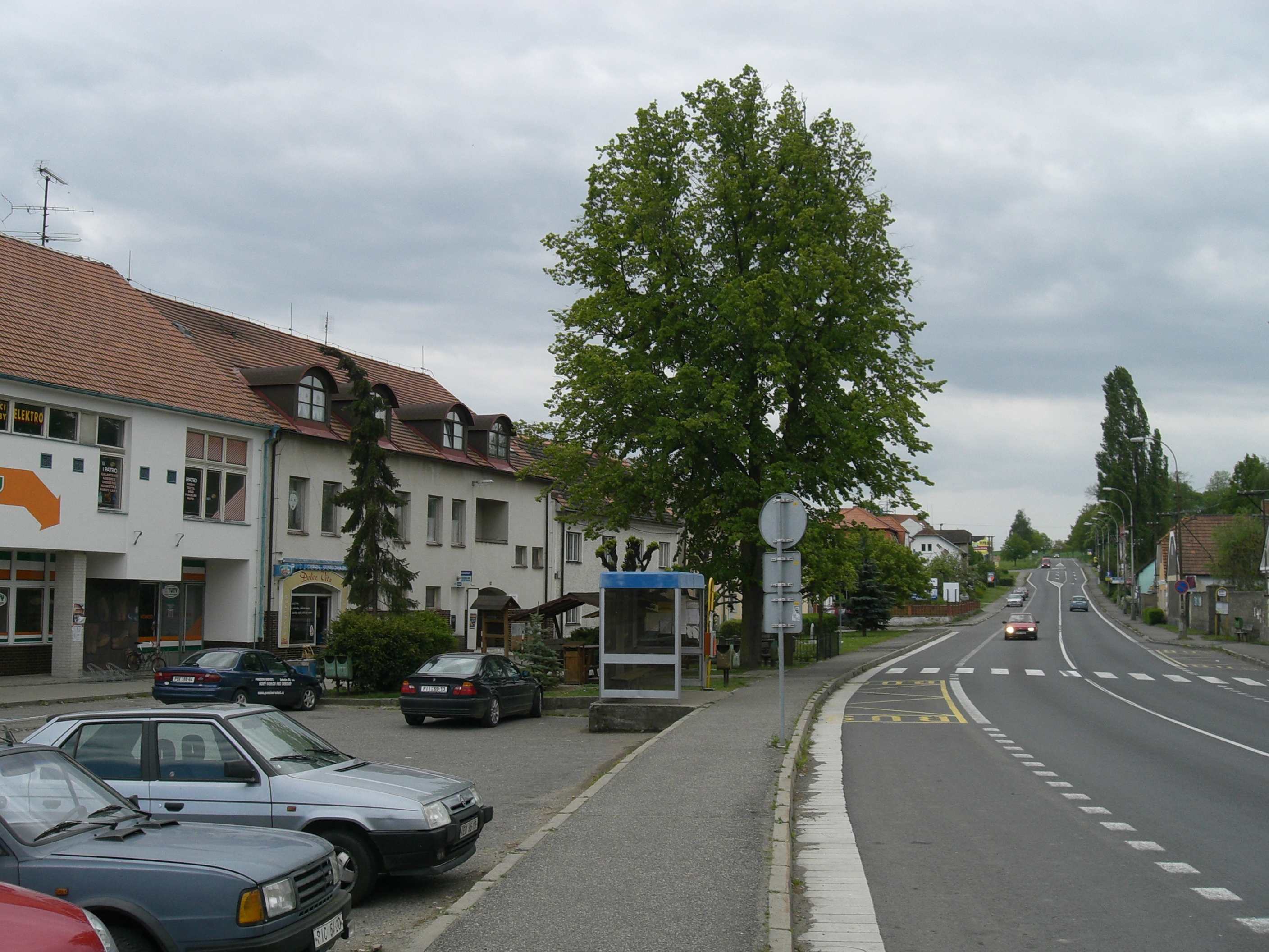 Čimelice village in Písek district, Czech Republic. Road to Písek